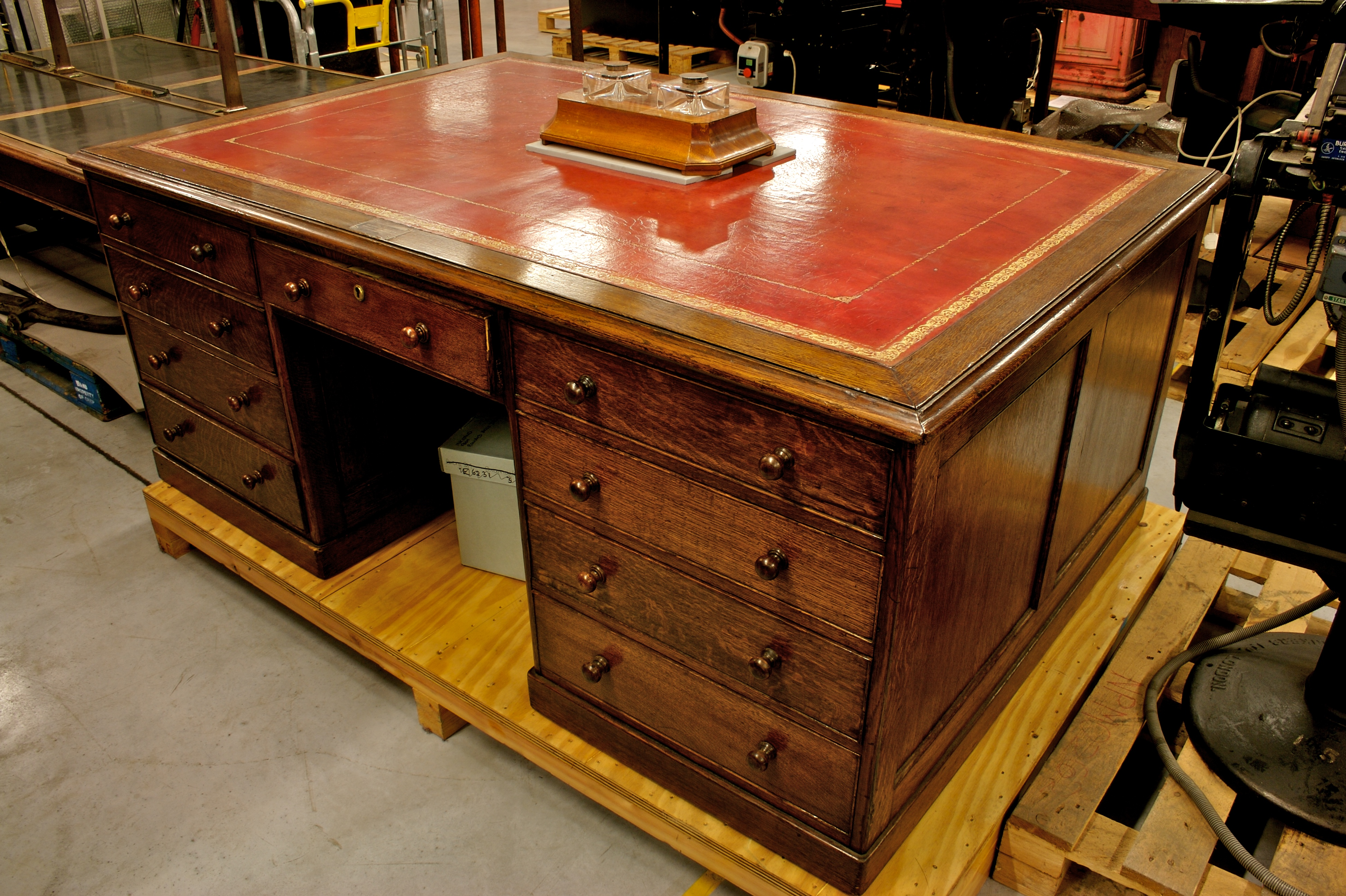 Sir Rowland Hill's Desk. Date: 19th century. The desk was used by Rowland Hill when secretary of the Post Office and used by subsequent incumbents of the post. It was transferred into the collections in April 2003 when the secretary's office was refurbished and new furniture purchased. Jonathan Evans was the last secretary to use the desk. Collection ID 2004-0026/1.